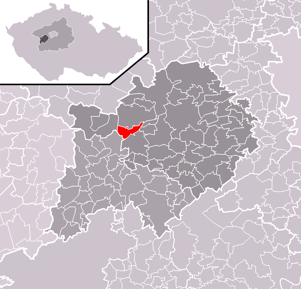 Location of Svatá municipality within Beroun District and administrative area of Beroun as a Municipality with Extended Competence.